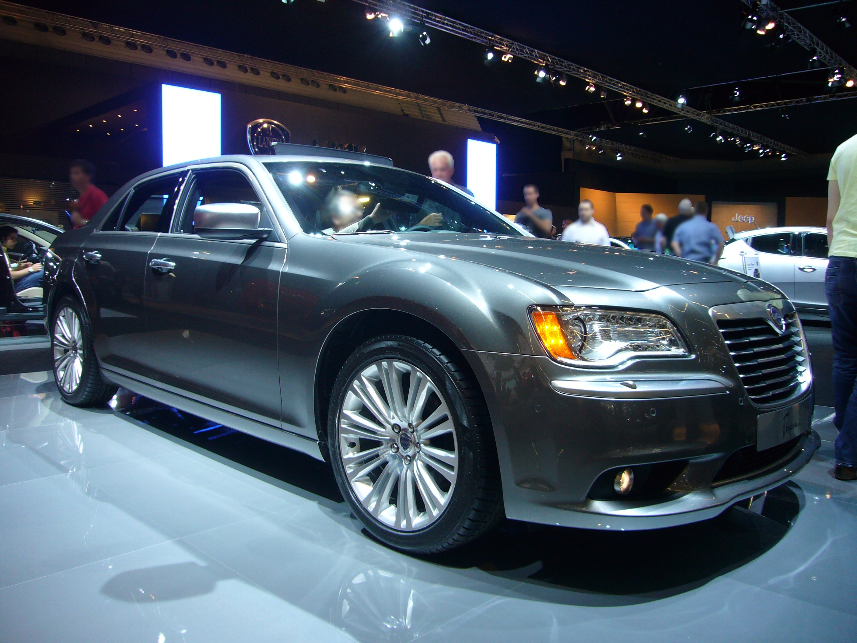 Lancia Thema at AutoRAI Amsterdam 2011